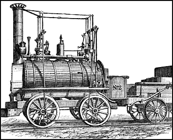 A 19th Century engraving of the Blucher